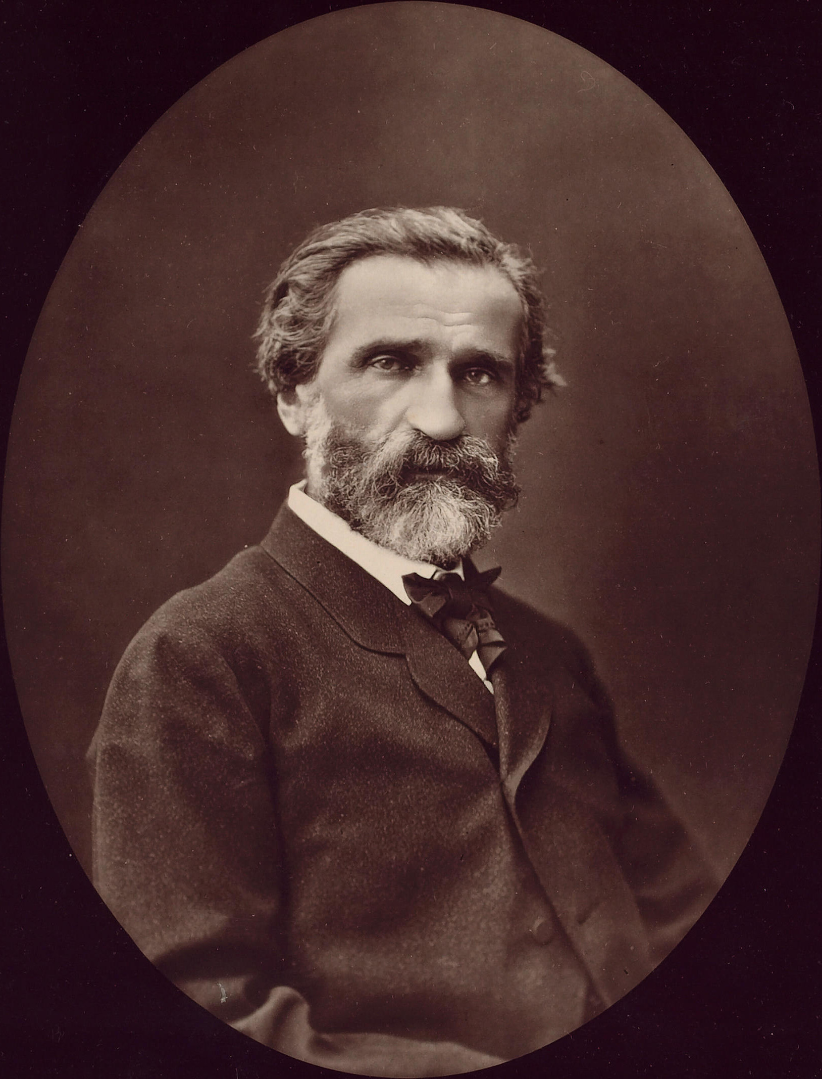 Picture of Giuseppe Verdi.